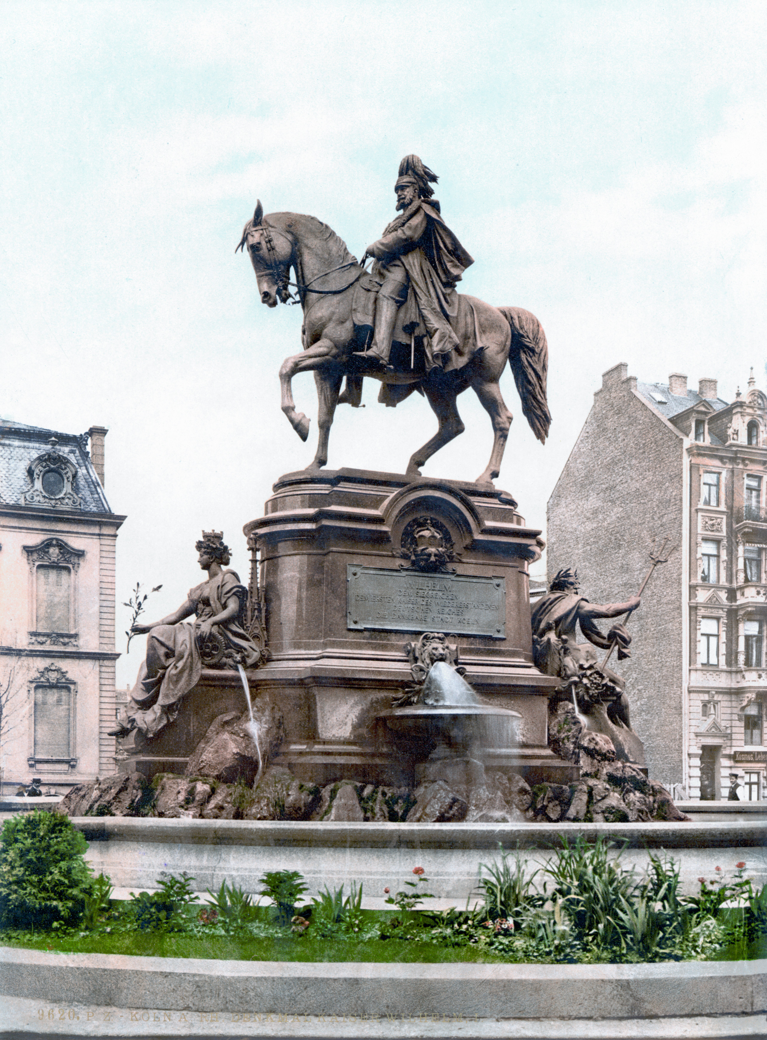 Emperor William I. Monument at Cologne, Germany